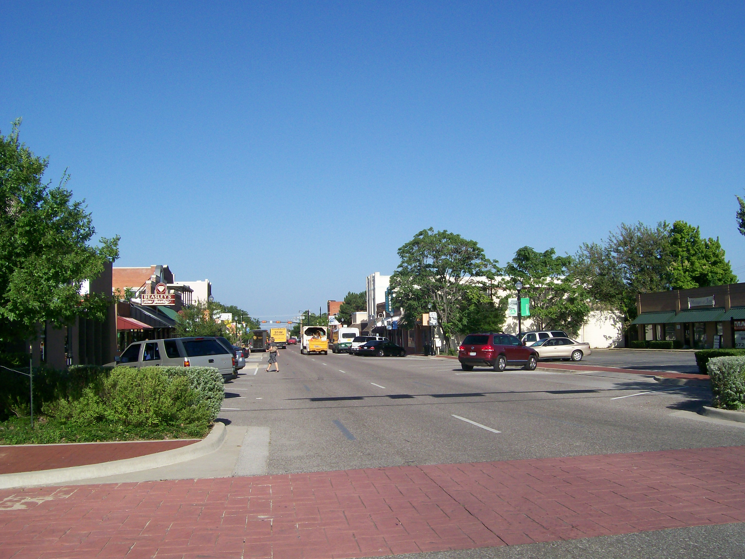 "Old Town" Lewisville, Texas looking east along Main Street from Charles Street.